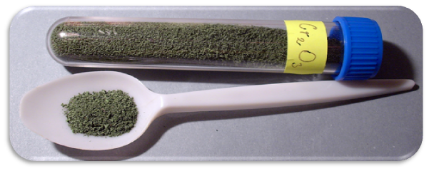 Oxid chromitý/Chromium (III) Oxide - Cr2O3